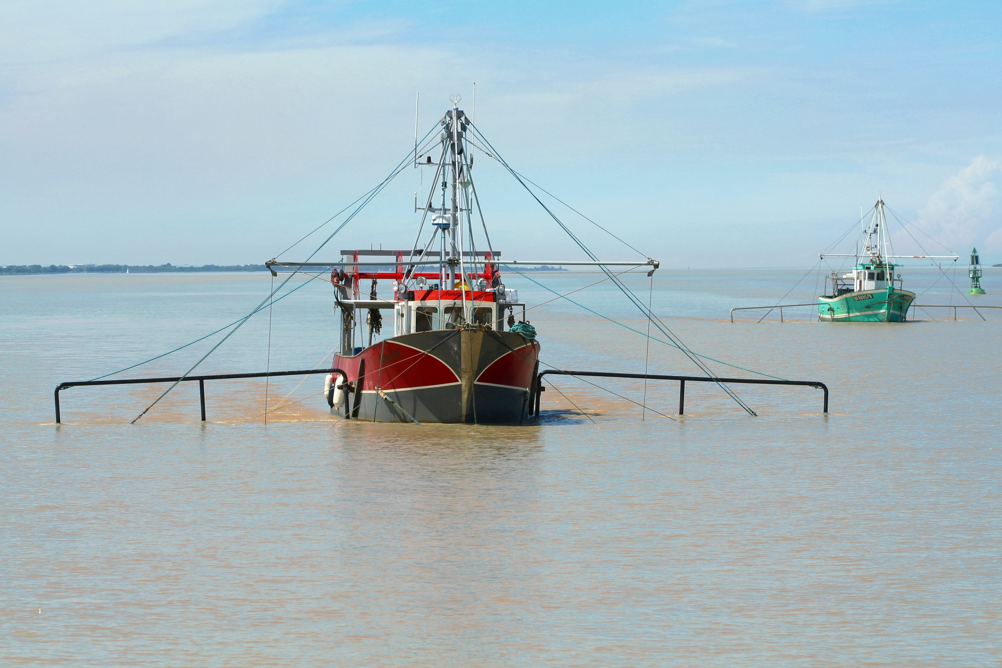 Glass eels fishing boat using pibalour push nets in Gironde estuary. Nets are fixed to the frames on both sides of the boats.